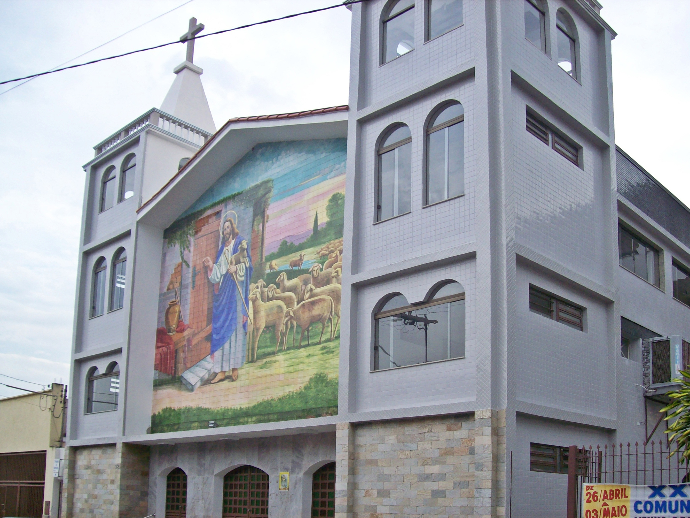 Front of the Good Shepherd Church in the Giovannini neighborhood, in Coronel Fabriciano, Minas Gerais, Brazil.